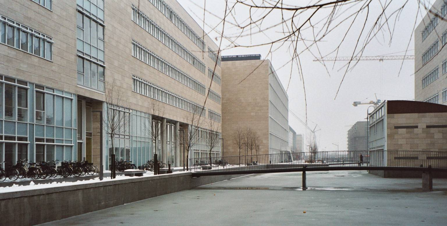 University of Copenhagen, South Campus on Amager, Denmark